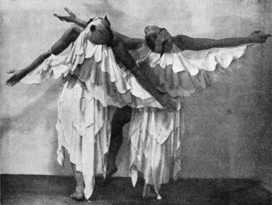 Scene from the balet Podvečer parného dne (The evenfall of a sultry day, 1932), choteography by Jarmila Kröschlová, music by Václav Smetáček.